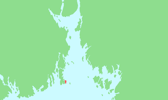 Locator map of Sandø, Vestfold, Norway